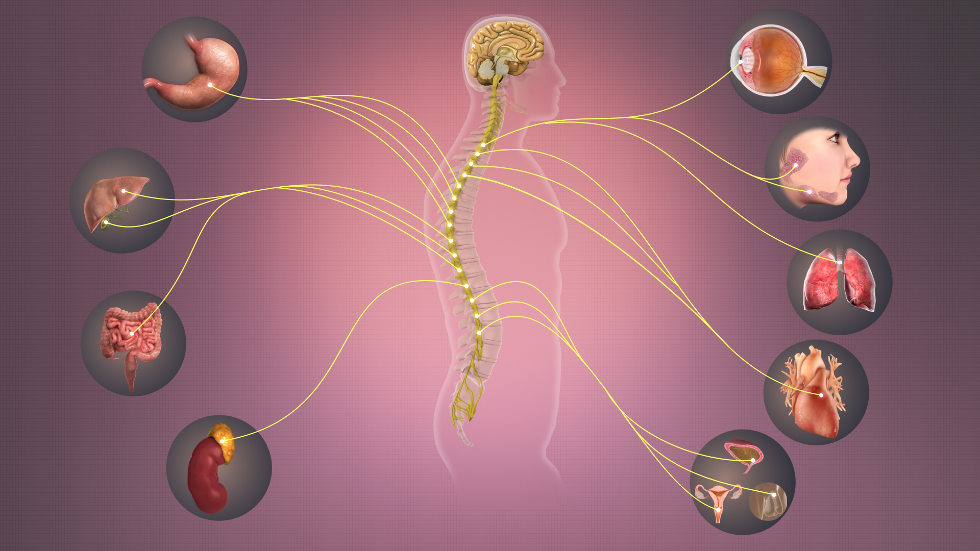 Messages through the sympathetic nervous system can accelerate heart rate, widen bronchial passages, decrease large intestine motility, cause vasoconstriction (except in the cerebral and coronary arteries), increase oesophageal peristalsis, and many other changes in the body.